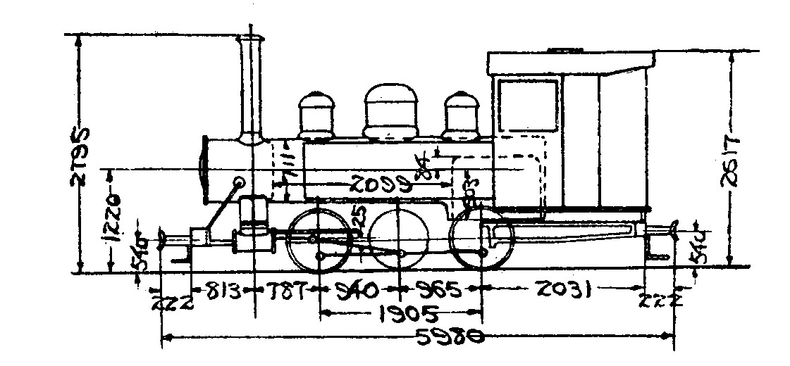 Type drawing of JGGKR's Nakisa type steam locomotive No.21.